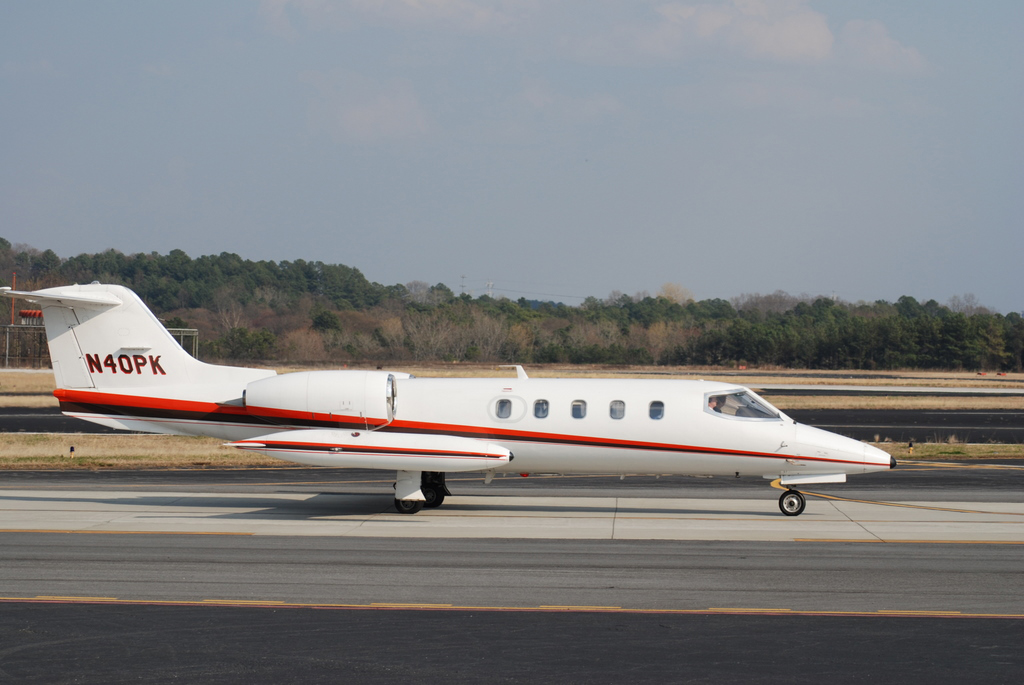 A Learjet 35A. Photo taken with a Nikon D80 and 70-300mm lens.